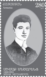 Armenian stamp for the 125th anniversary of the birth of Misak Metsarents.